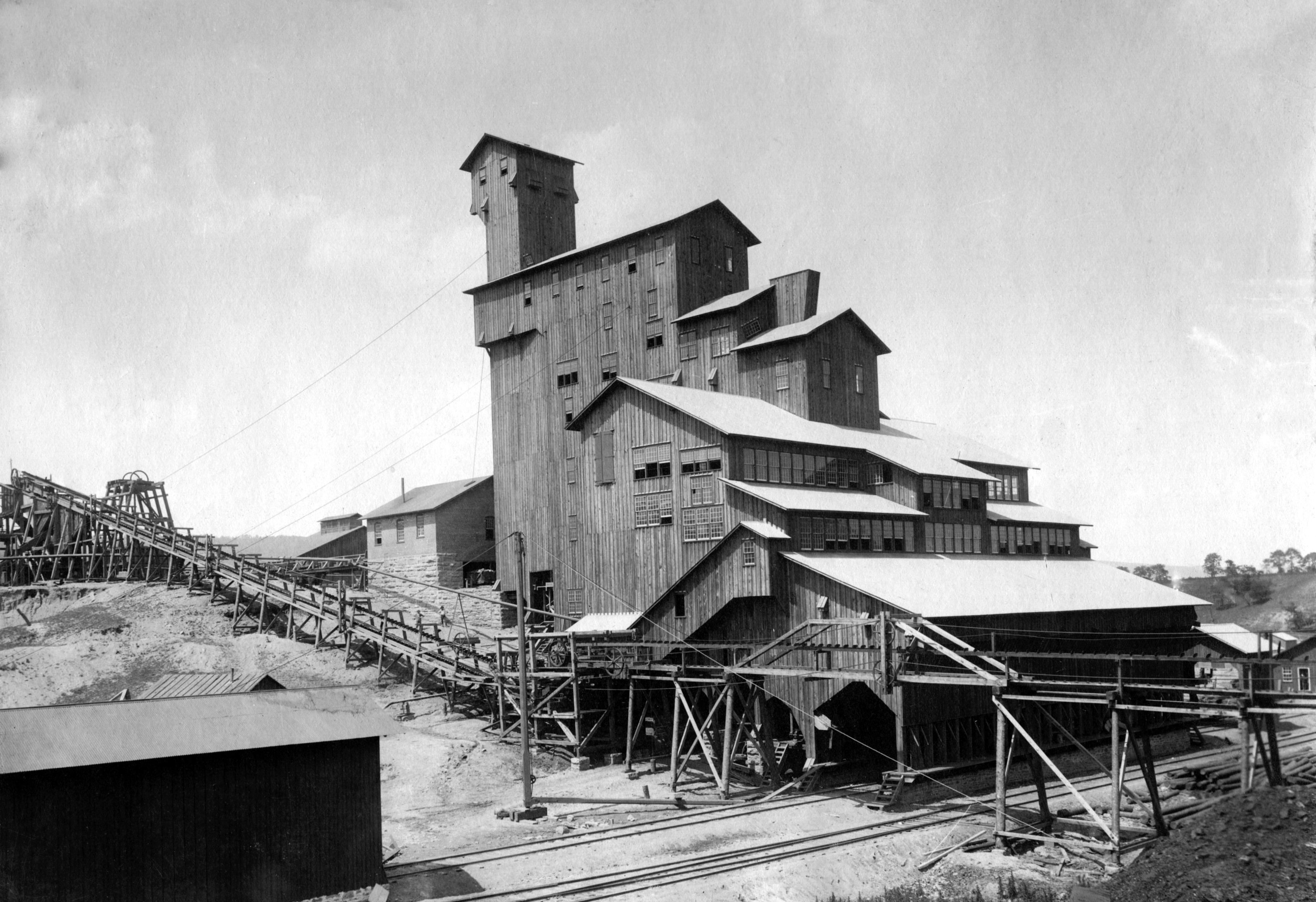 A photograph of the Delaware & Hudson Coal Breaker No. 5, Plymouth, Pennsylvania